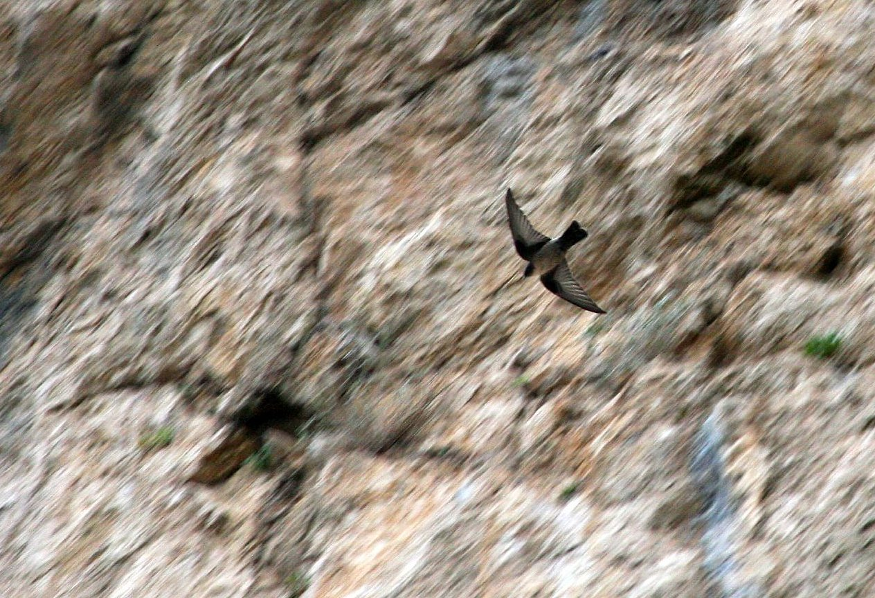 Eurasian Crag-Martin Ptyonoprogne rupestris, Mont-Rebei, Lleida, Spain